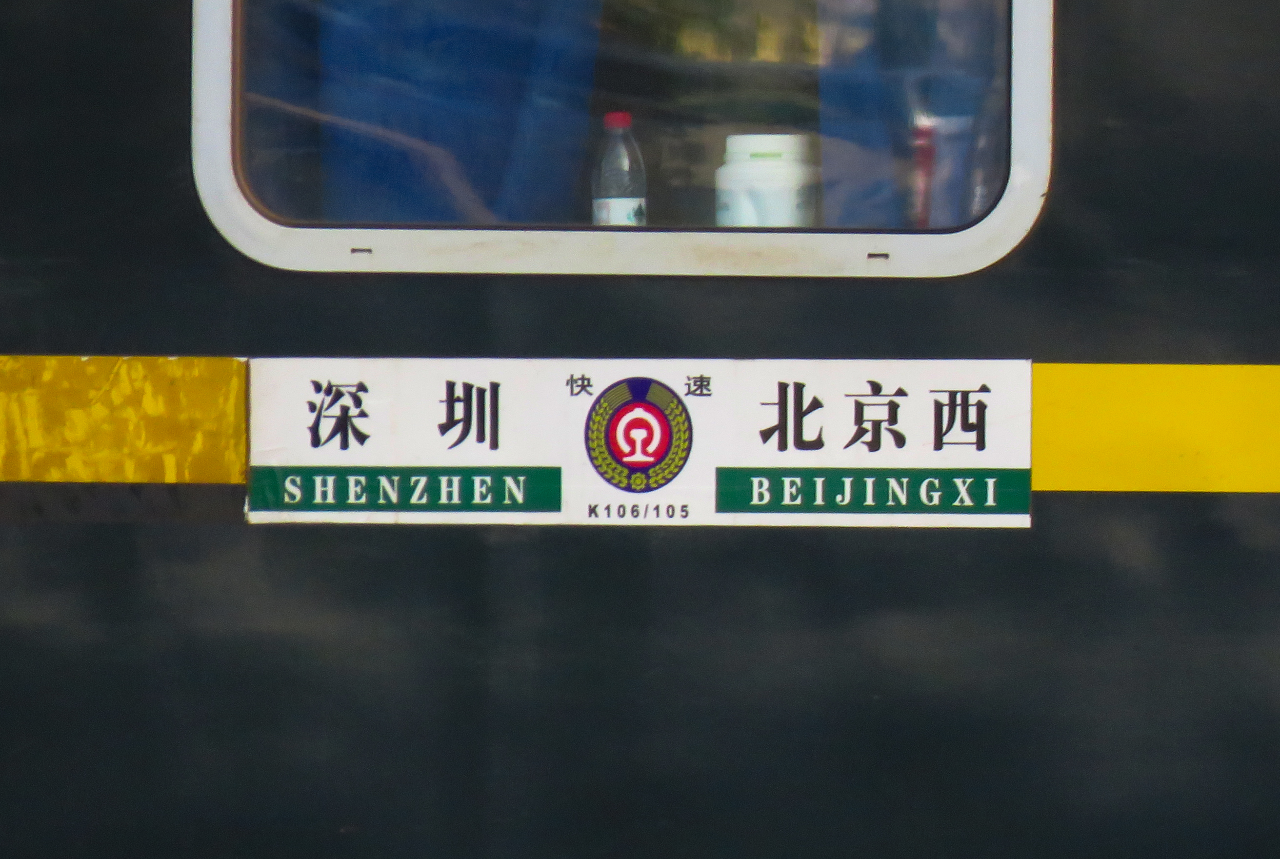 The mega bus on Beijing-Kowloon Railway.